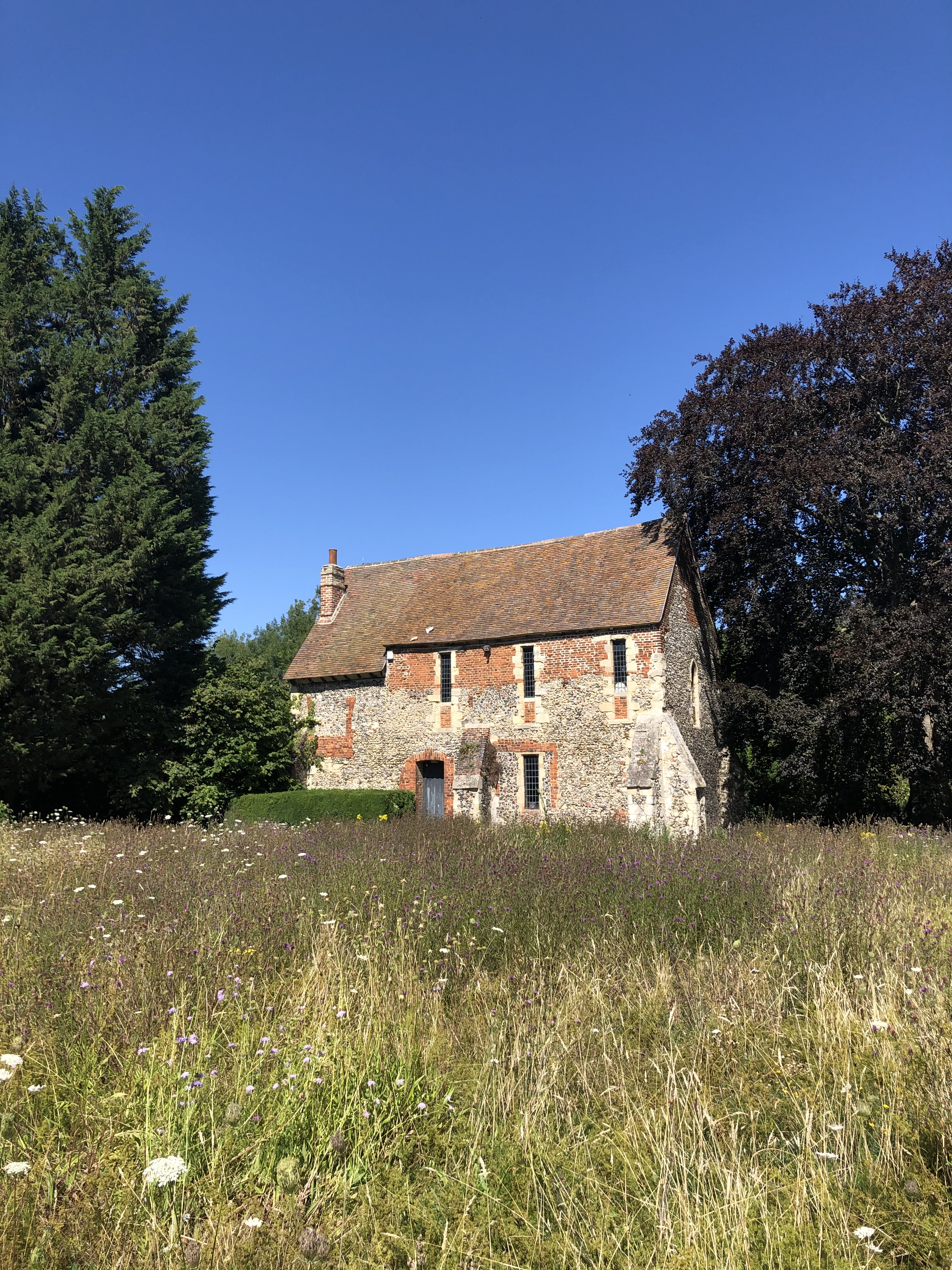 Picture of Greyfriars Chapel, Canterbury.